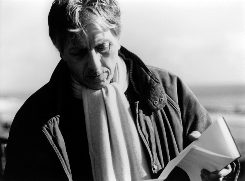 Portrait of Nanni Cagnone by photographer Pino Usicco, Italy, photographed in Genoa 2001